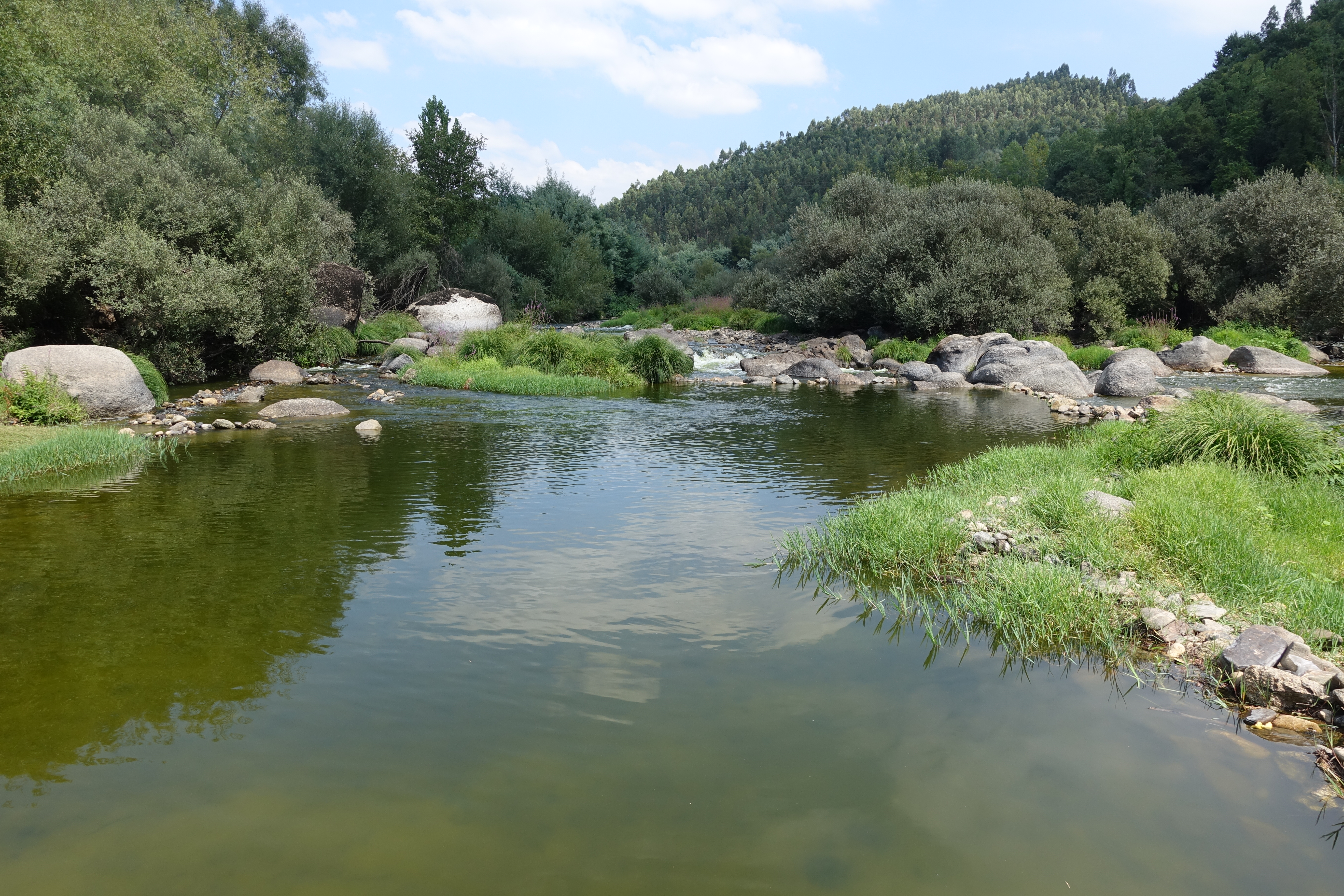 Tâmega river in Chapa Amarante, Portugal.